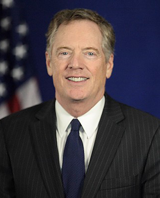 Portrait of Robert Lighthizer, President-elect Donald Trump's choice for U.S. Trade Representative